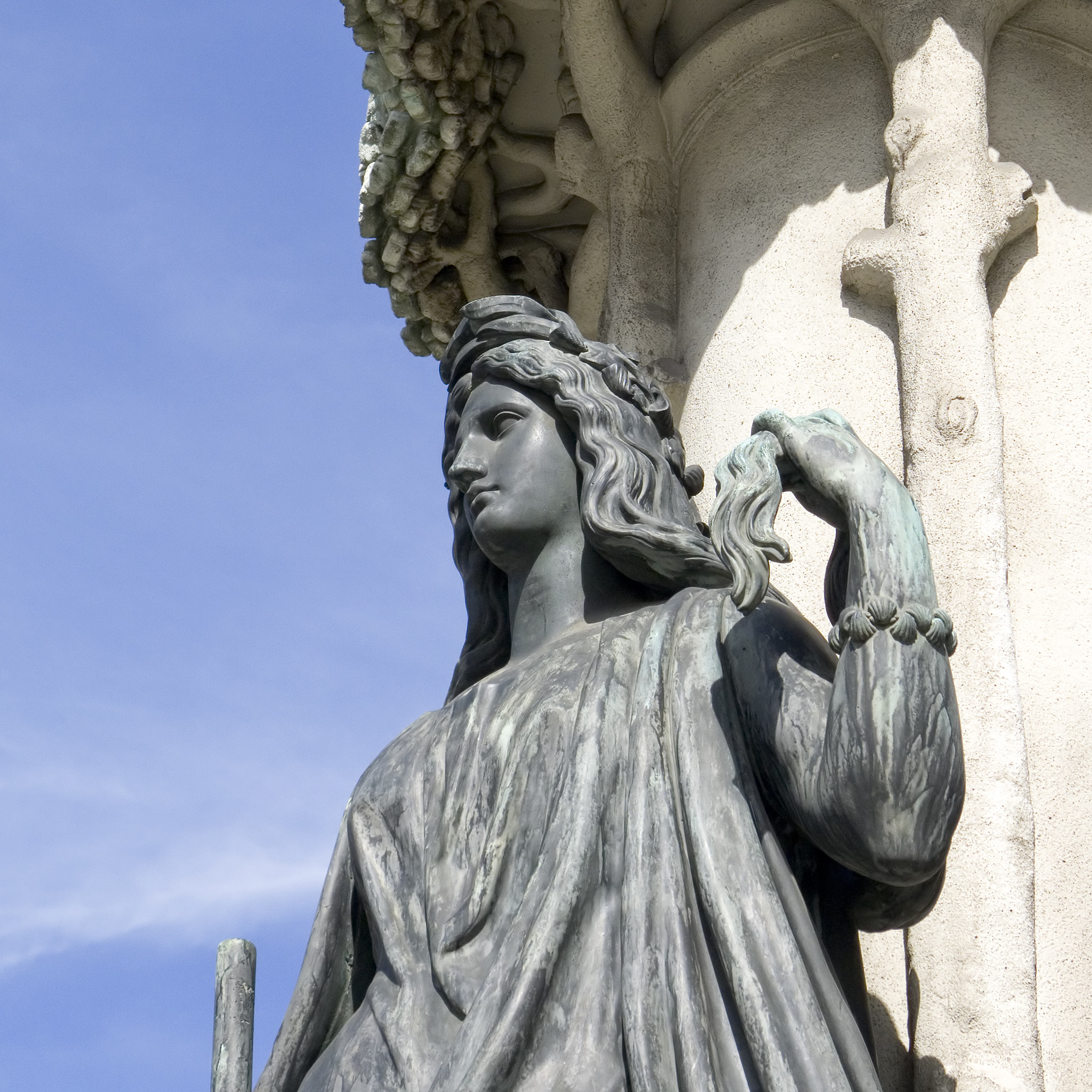 Fountain Austriabrunnen in Vienna 1